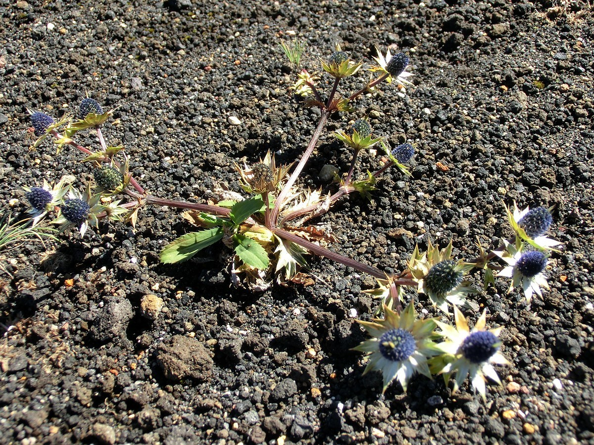 Eryngium carlinae, habitus. Costa Rica, Irazú Volcano National Park, ca. 3400 m.